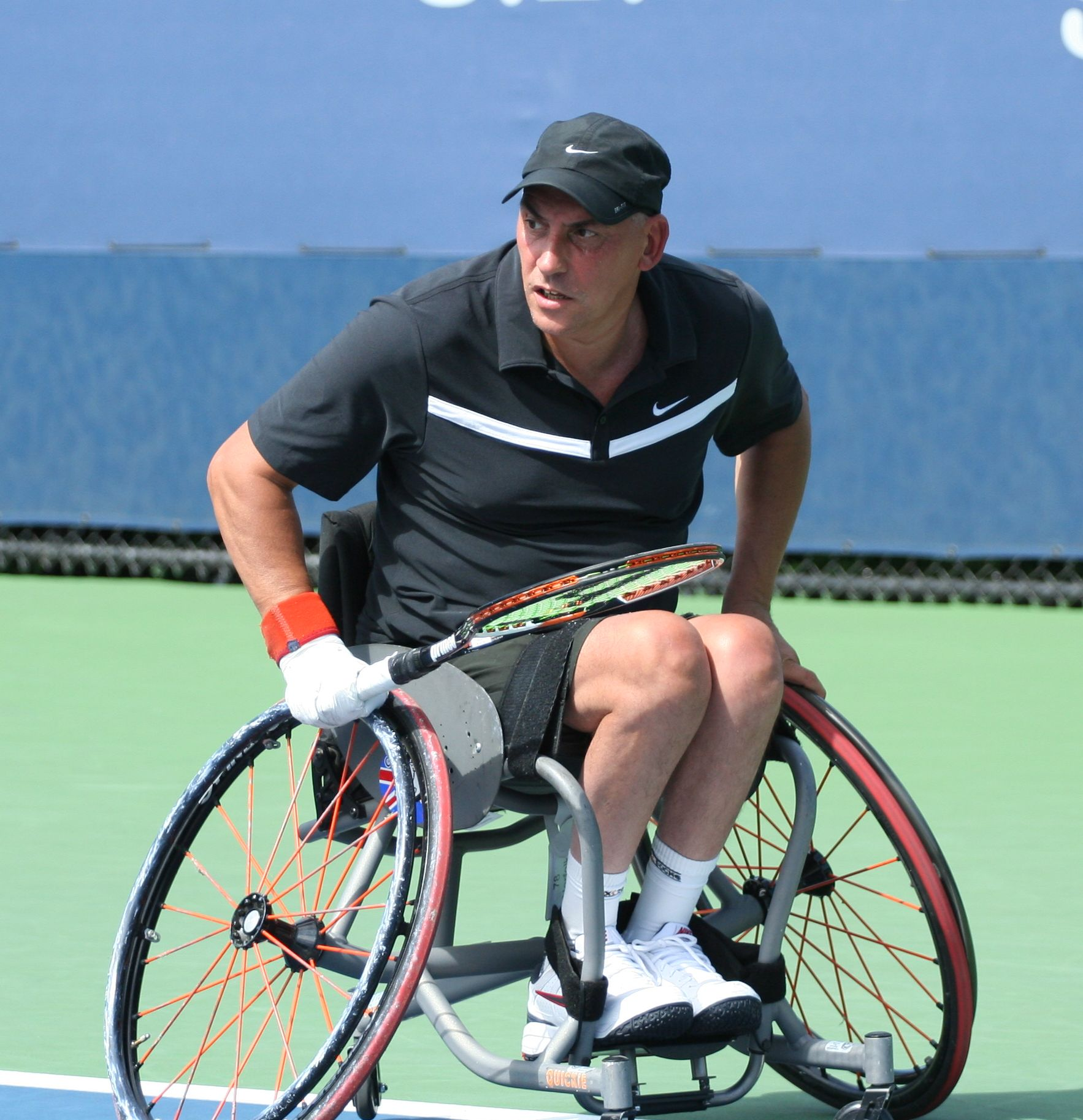 U.S. Open Wheelchair Thursday, Sept. 8, 2011